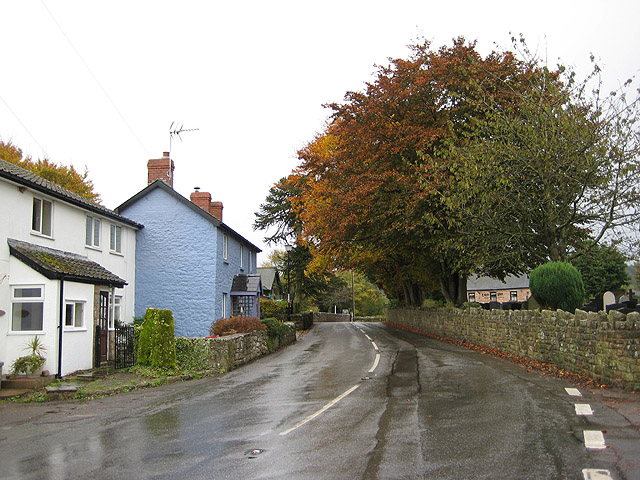 B4293 passing through Trellech A wet Tuesday in October, temperature at 2 degrees C. The wall to the right encloses the churchyard. The building through the trees is the Lion Inn. An interesting village with 3 standing stones which give the village its name, a healing well and an ancient tump.